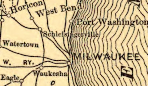 Derivative of File:Northern Pacific Railroad map circa 1900.jpg centered on Schleisingerville -- now Slinger -- Wisconsin